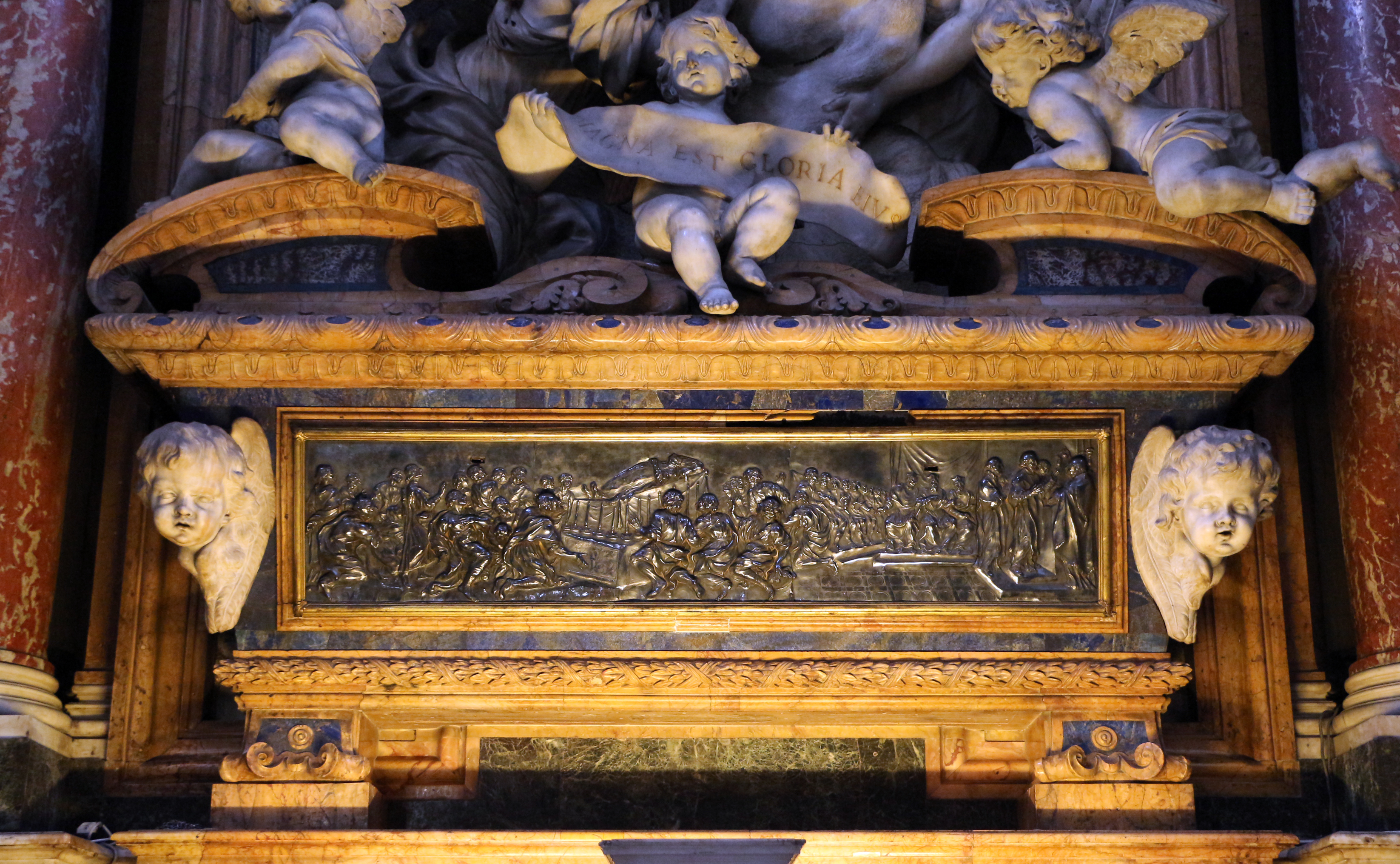 Reliefs by Giovanni Battista Foggini in the Cappella Corsini